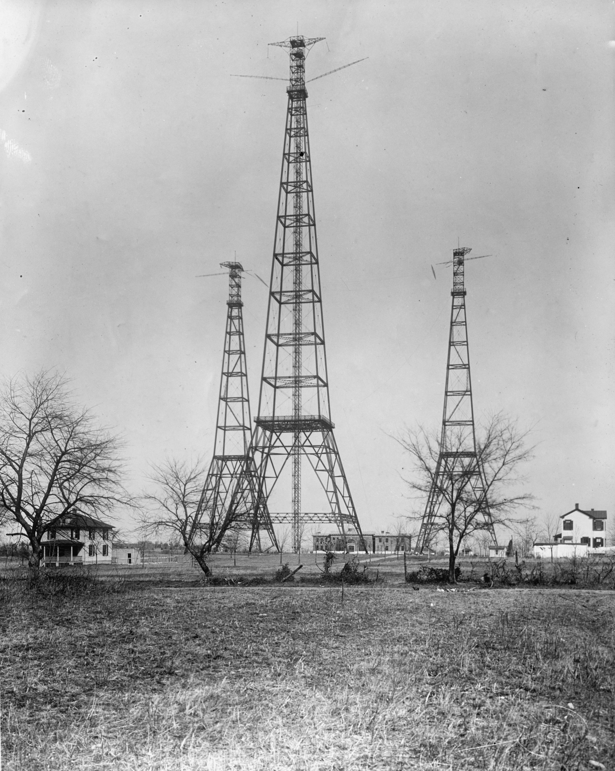 US Navy radio towers in Arlington County, Virginia. This image was taken in 1916 or 1917.